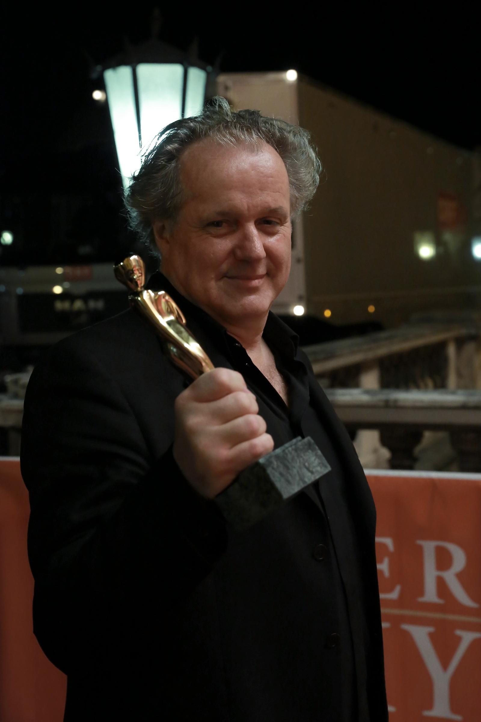 Julian Pölsler at the Romy film awards 2014 (Hofburg Imperial Palace in Vienna)